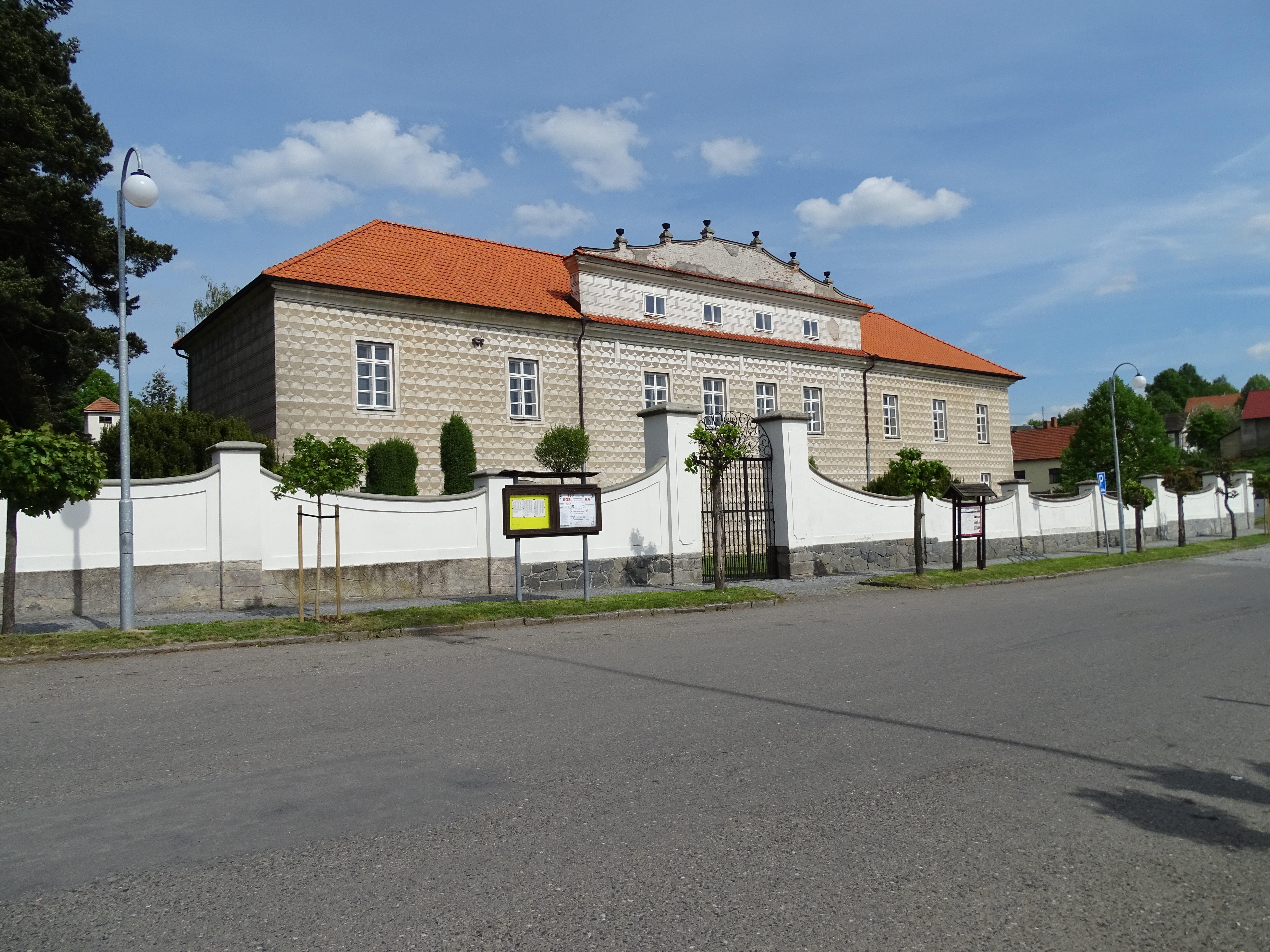 Kosova Hora, Příbram District, Central Bohemian Region, Czech Republic. The square, the castle, no. 1.